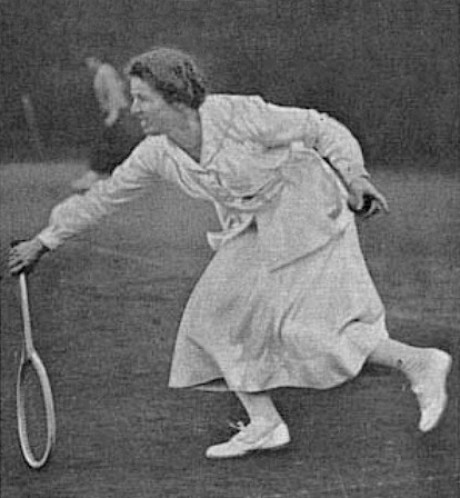 English tennis player Geraldine Beamish at the Queen's Club tournament